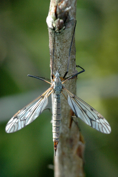 Picture taken in Commanster, Belgian High Ardennes . Species: female Tipula hortorum